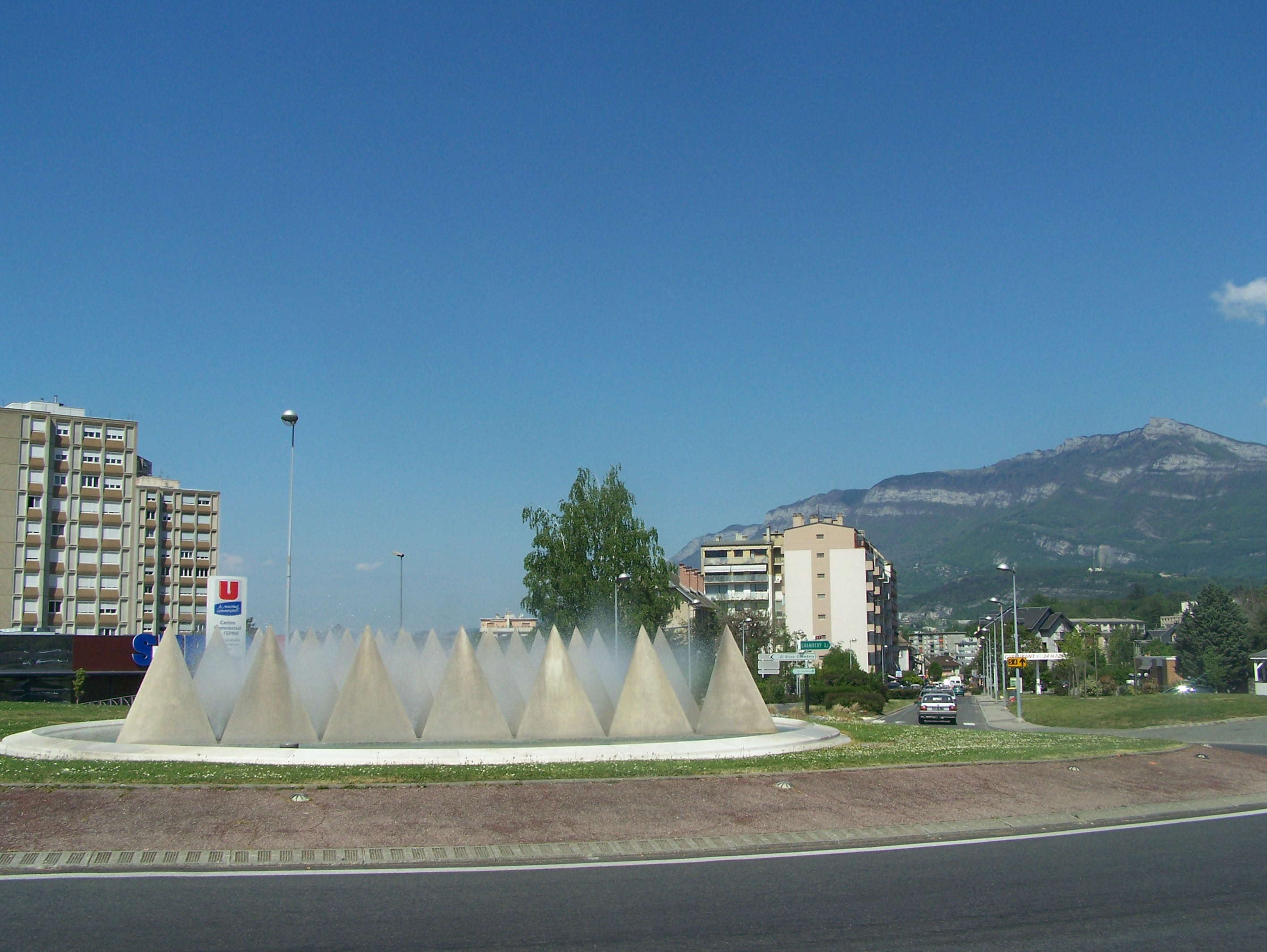 Commune of Cognin city center, near Chambéry in Savoie, France.